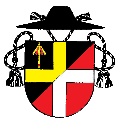 Coat of Arms of Deanery Šumperk, Archdiocese Olomouc